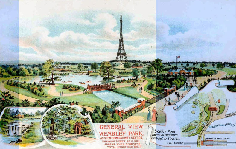 Historical presentation of Wembley Park with Watkin's Tower